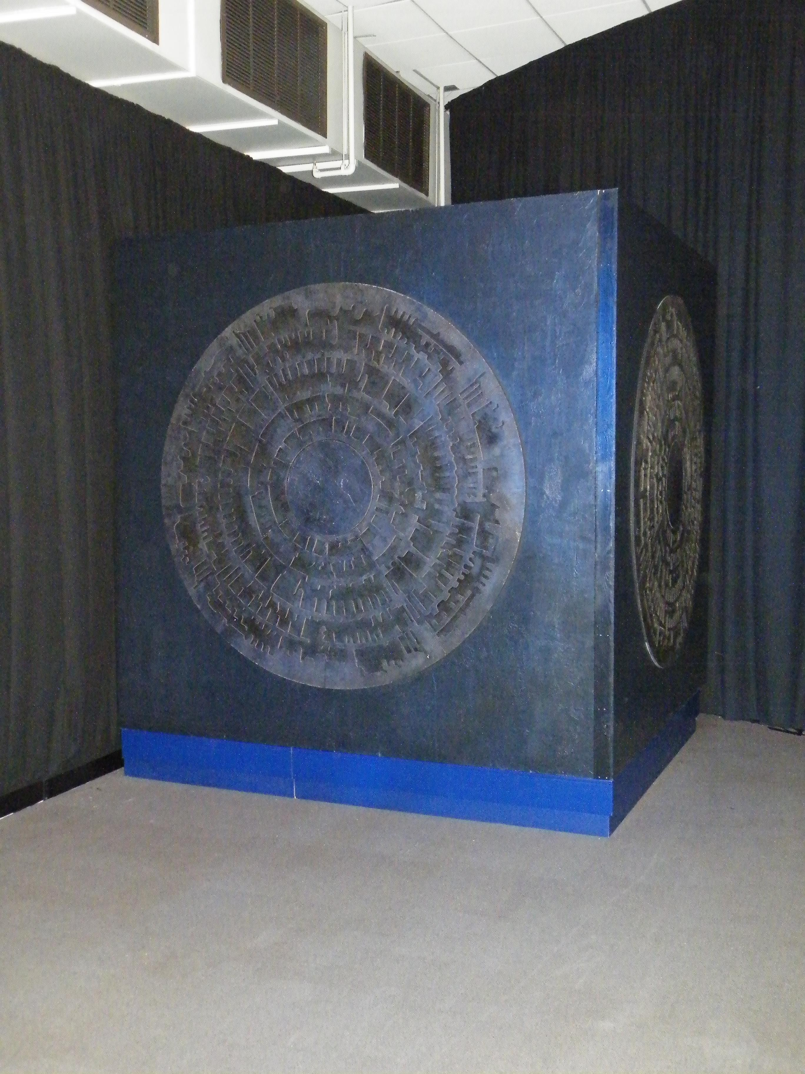 From the Series 5 finale episodes, "The Pandorica Opens" and "The Big Bang" Doctor Who Experience